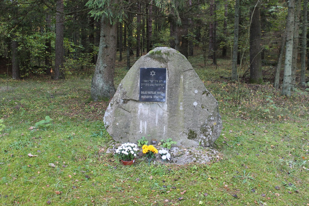 The Jews of Skuodas Holocaust graves near Dimitravas, Kretinga district, Lithuania